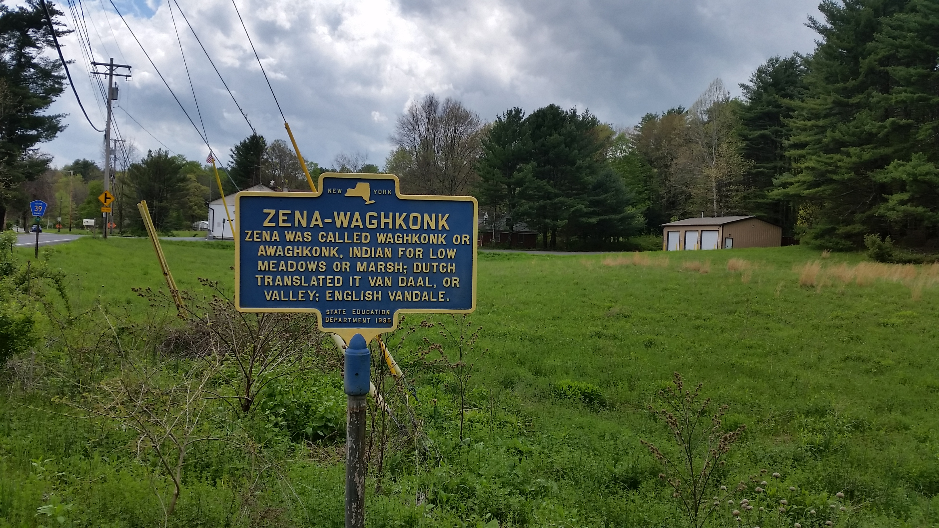 NY State historical marker that is fabulously vague about why it is there and why the Zena area is called Zeno. What were they thinking?